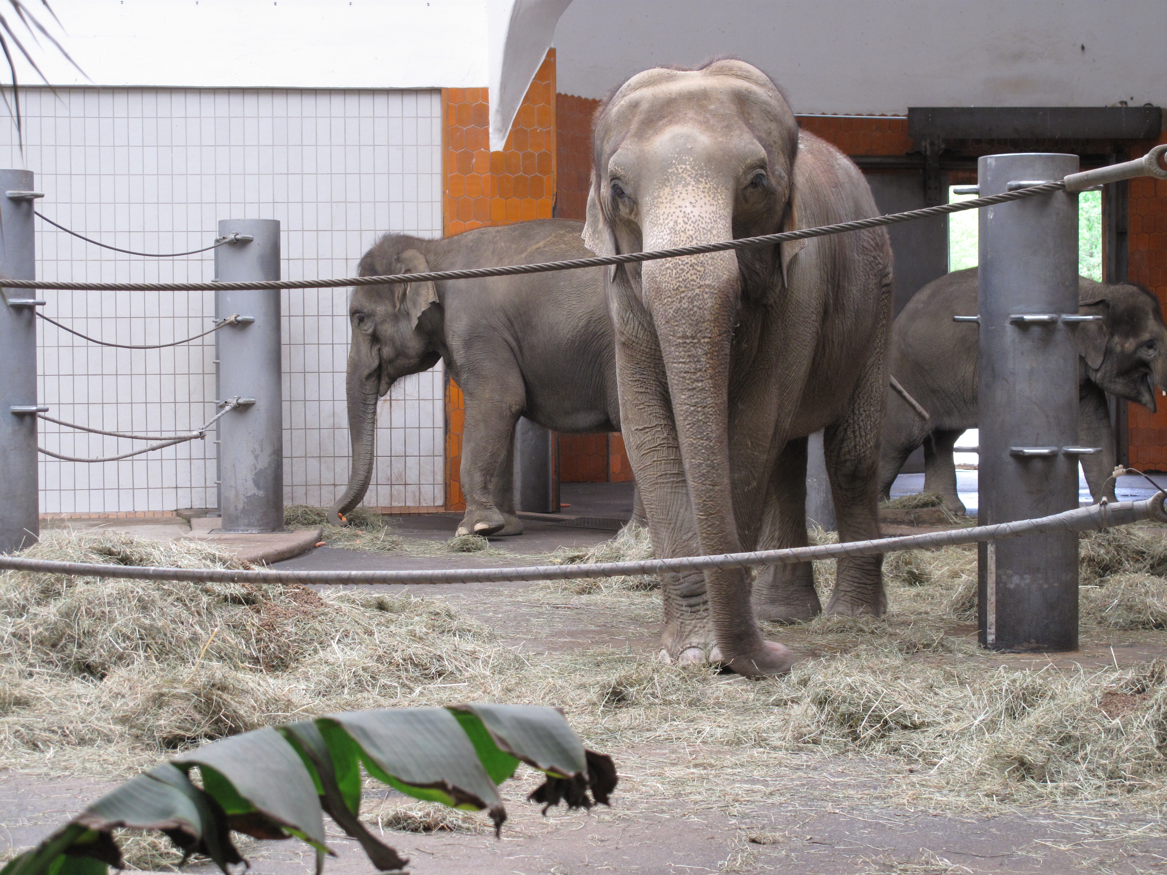 Inside the Elefant-House of the Tierpark Hellabrunn (Zoo of Munich). Feeding of the elefants.